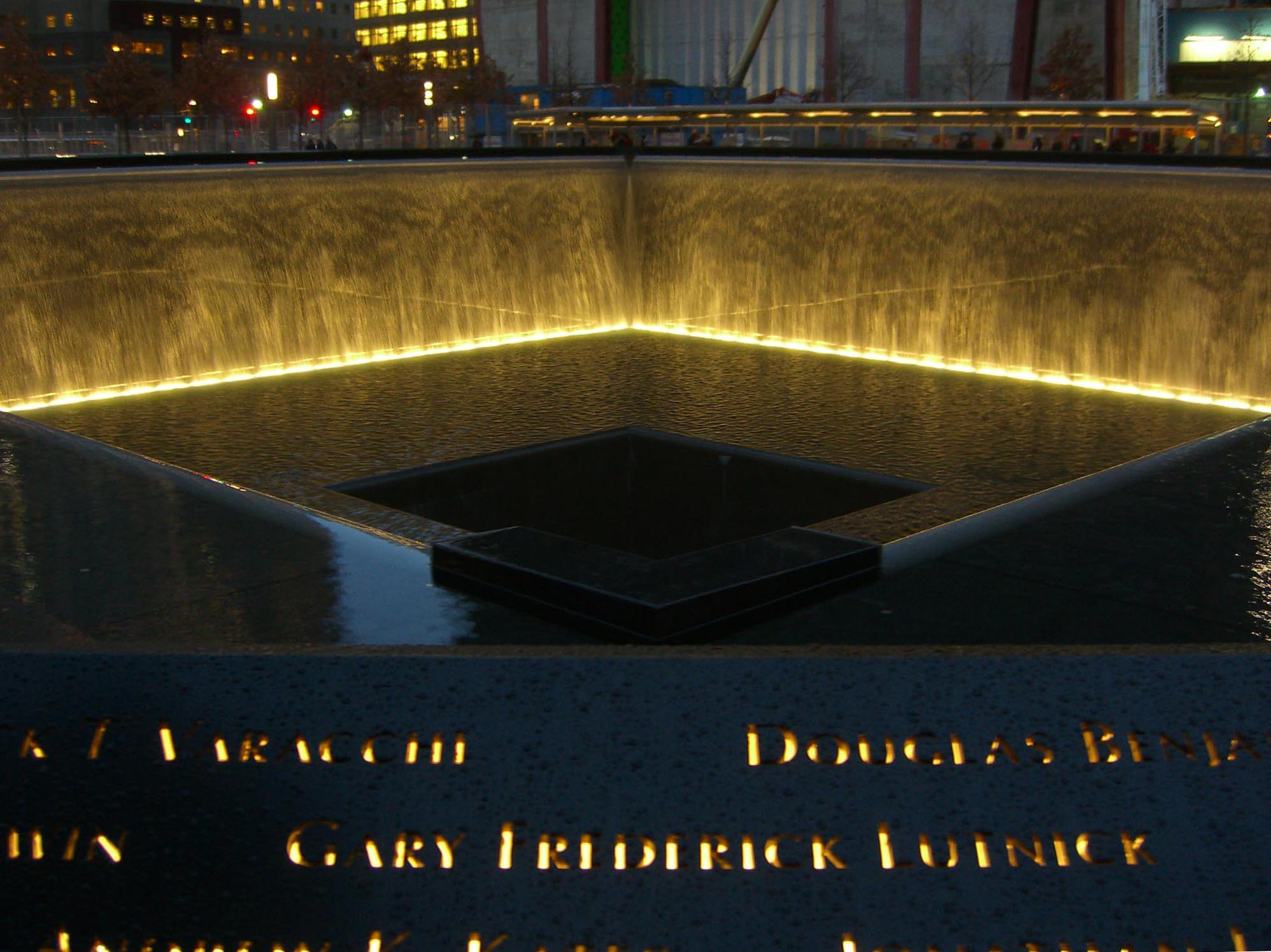 The North Pool of the National September 11 Memorial & Museum in Manhattan, as seen on December 6, 2011. This photo was created by Luigi Novi. If you have any questions, you can contact me by sending me an email or leaving a note at the bottom of my talk page.